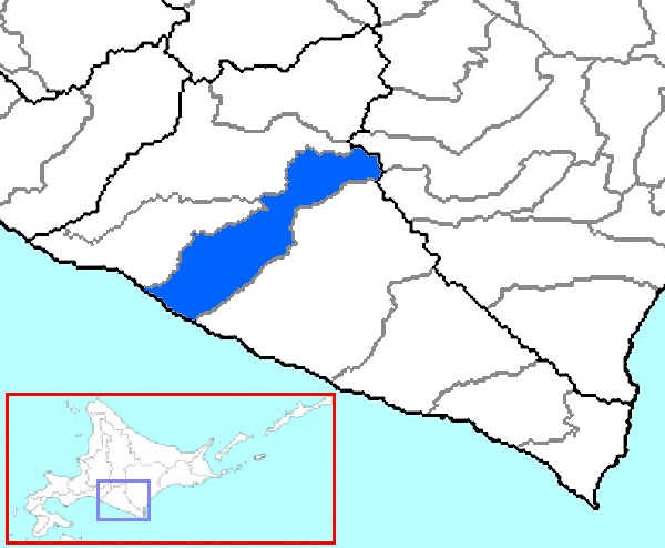 The location of Niikappu in Hidaka Subprefecture, Hokkaido Prefecture, Japan.